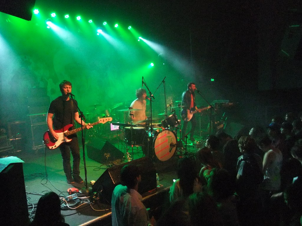 US-Band Telekinesis